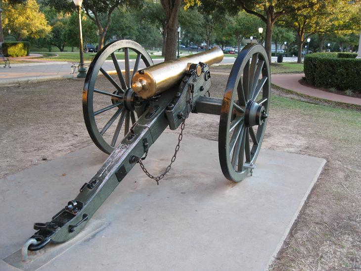 This 12-pound Napoleon cannon is located in front of the Texas Capitol in Austin. The date on the breech reads 1864. The barrel points south down Congress Avenue.